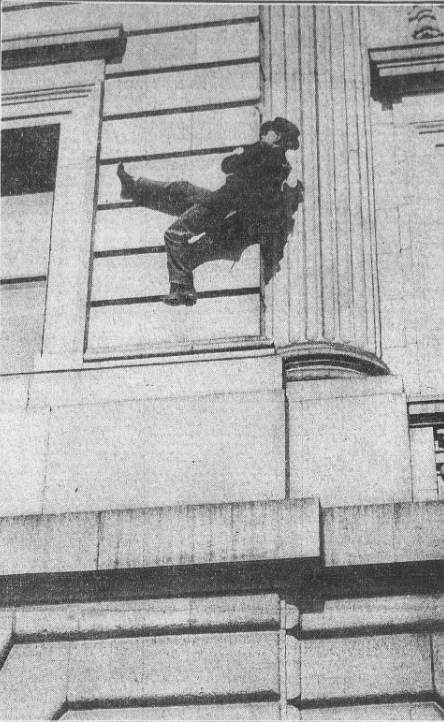 Human Fly crawls up walls of Camden Courthouse